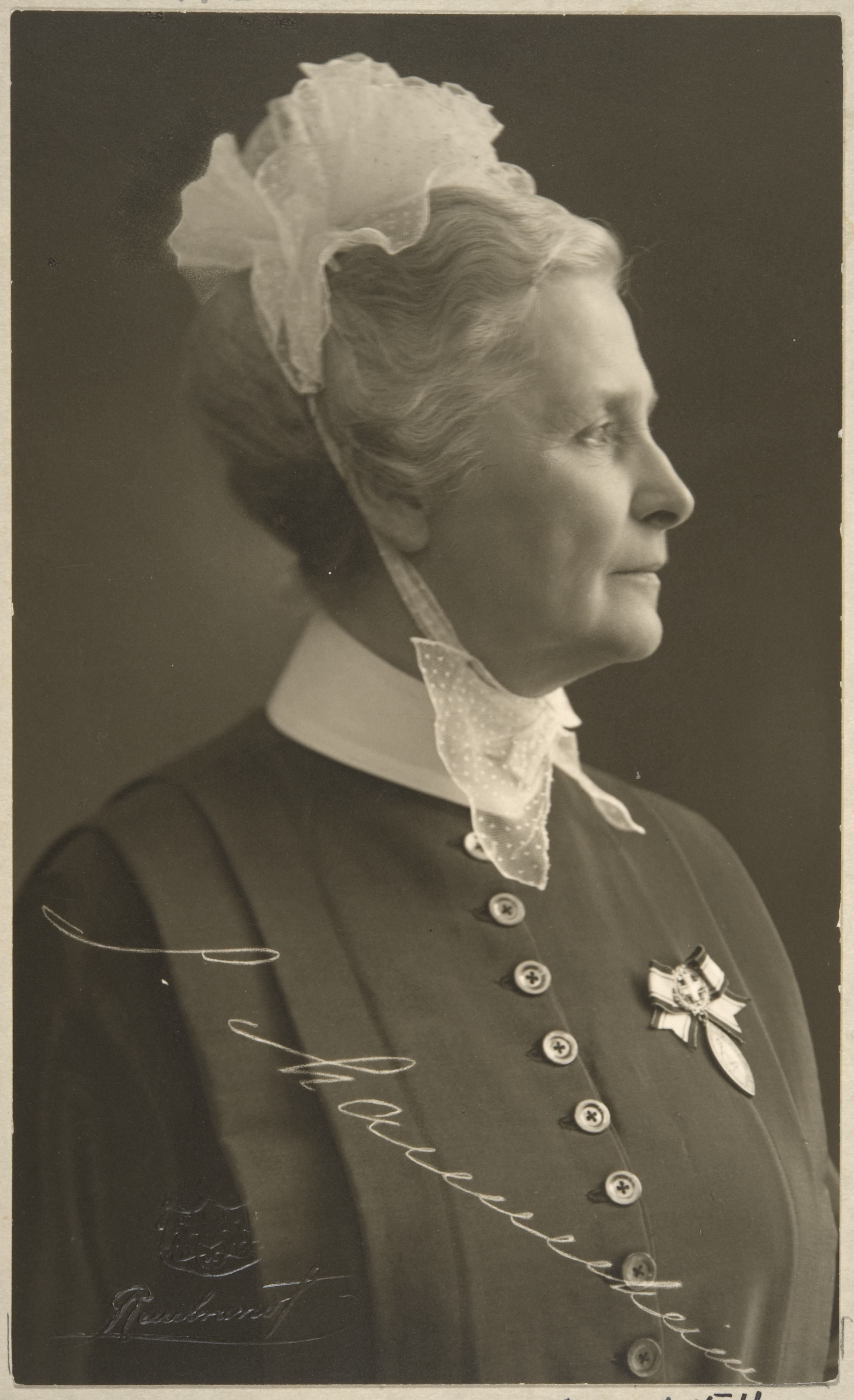 Photograph of the Finnish nurse Sophie Mannerheim (1863–1928).